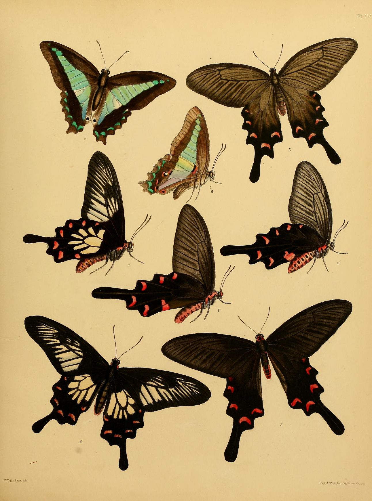 George Robert Gray 1852 Catalogue British Museum Papilionidae Plate 4 text 1 Papilio sarpedon var. b " with the oblique band on all the wings extremely broad in the middle" British Museum. Australia.= Graphium sarpedon choredon (C. & R. Felder, 1864) 2 female 3 male Papilio alcinous var. = Byasa mencius (C. & R. Felder, 1862) description of var. of alcinous female Papilio iophon = Pachliopta jophon Gray, [1853]